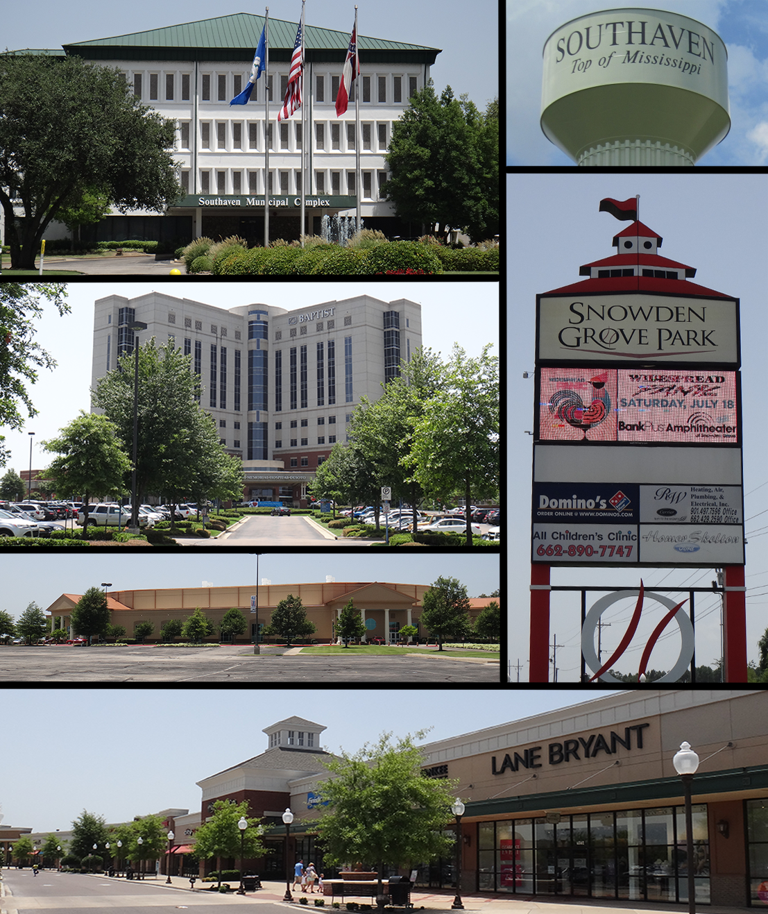 This is a photo collage around the city of Southaven, Mississippi